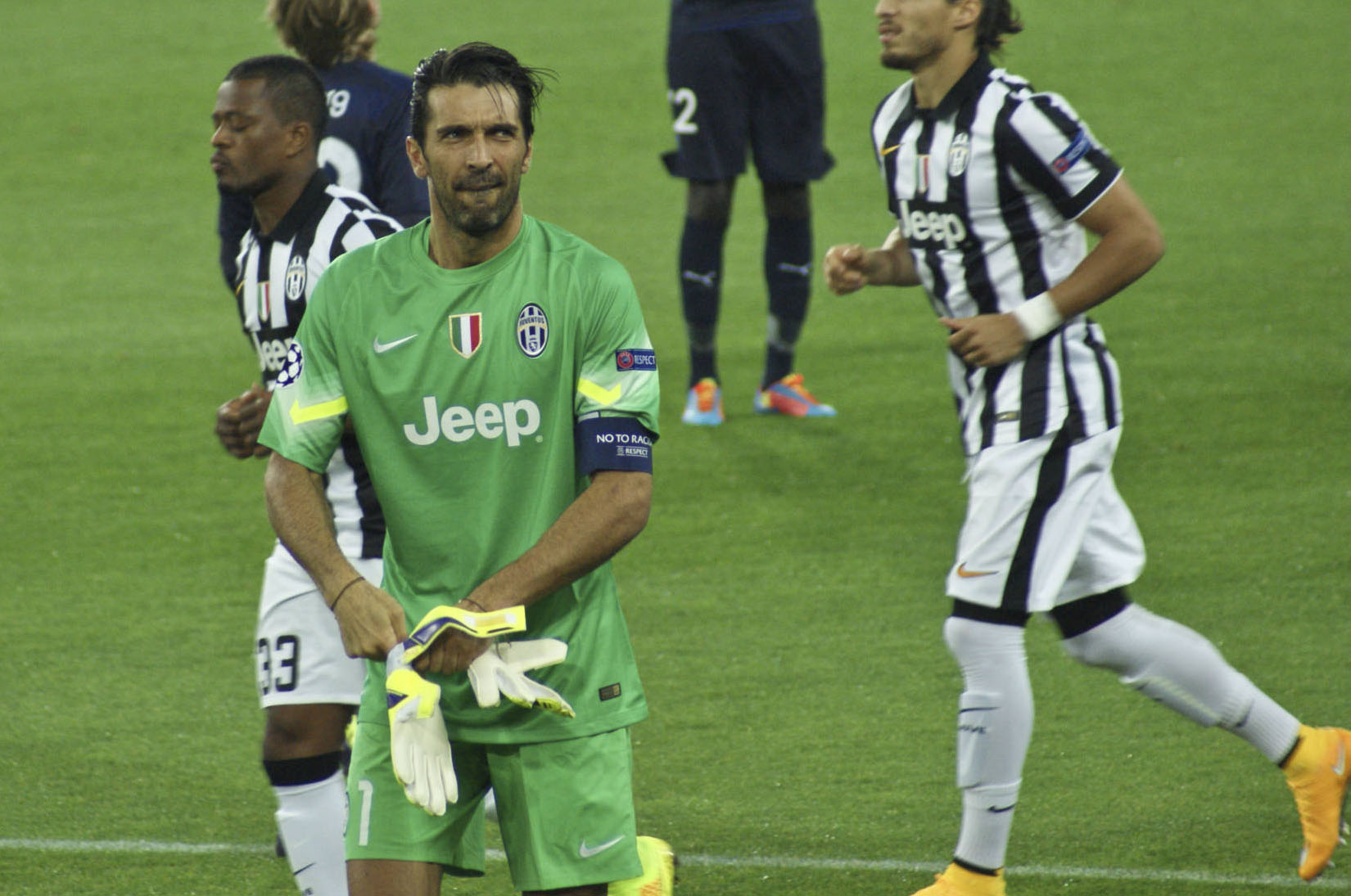 Turin, Juventus Stadium, September 16, 2014. Gianluigi Buffon playing for Juventus FC versus Malmoe FF in the 2014-15 UEFA Champions League group stages.